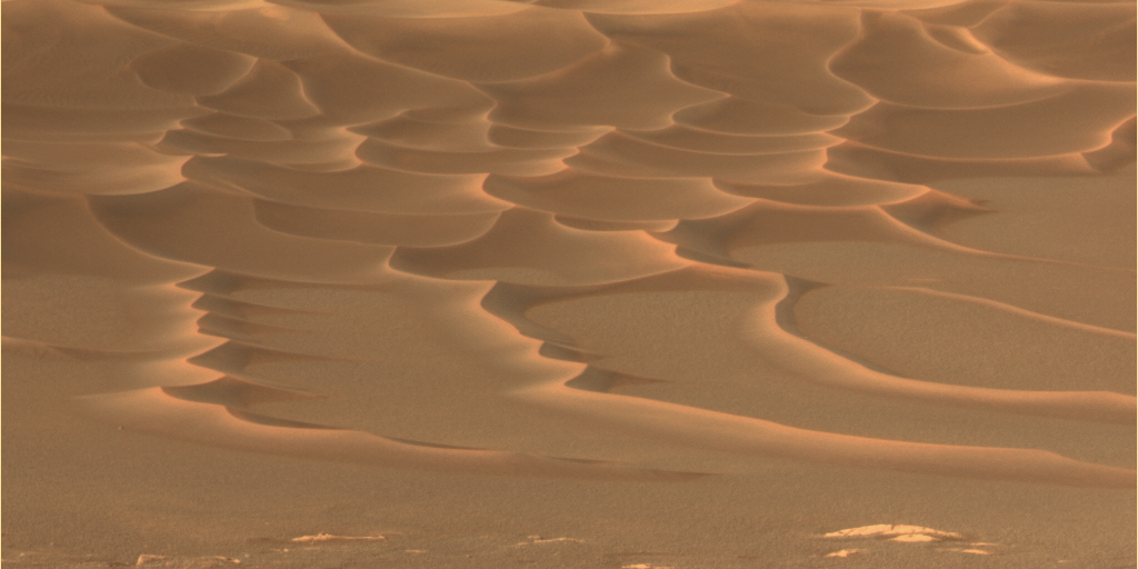 As NASA's Mars Exploration Rover Opportunity creeps farther into "Endurance Crater," the dune field on the crater floor appears even more dramatic. This approximate true-color panoramic camera image highlights the reddish-colored dust present throughout the scene. Sinuous tendrils of sand less than 1 meter (3.3 feet) high extend from the main dune field toward the rover. Scientists hope to send the rover down to one of these tendrils in an effort to learn more about the characteristics of the dunes. Dunes are a common feature across the surface of Mars, and knowledge gleaned from investigating the Endurance dunes close-up may apply to similar dunes elsewhere. Before the rover heads down to the dunes, rover drivers must first establish whether the slippery slope that leads to them is firm enough to ensure a successful drive back out of the crater. Otherwise, such hazards might make the dune field a true sand trap.